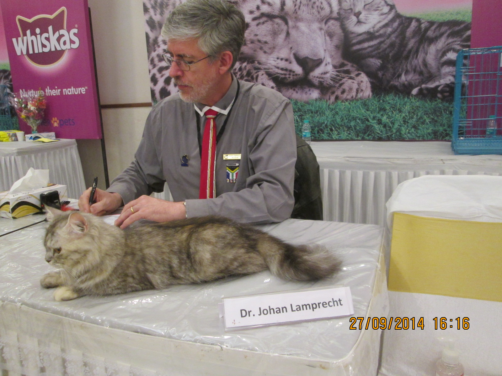 "Whiskas 2nd International Cat Show of India" in Mumbai organized by "Indian cat Federation" and owing allegiance to "World Cat Federation" of Germany. The show was been sponsored by Mars India International Pvt Ltd a leading pet food manufacturer in India, selling the famous “Pedigree” and “Whiskas” brands for dogs and cats.Here a traditional Persian cat "Christina" owned by Mrs Mehar.Ansari is on the judge's table for examination.